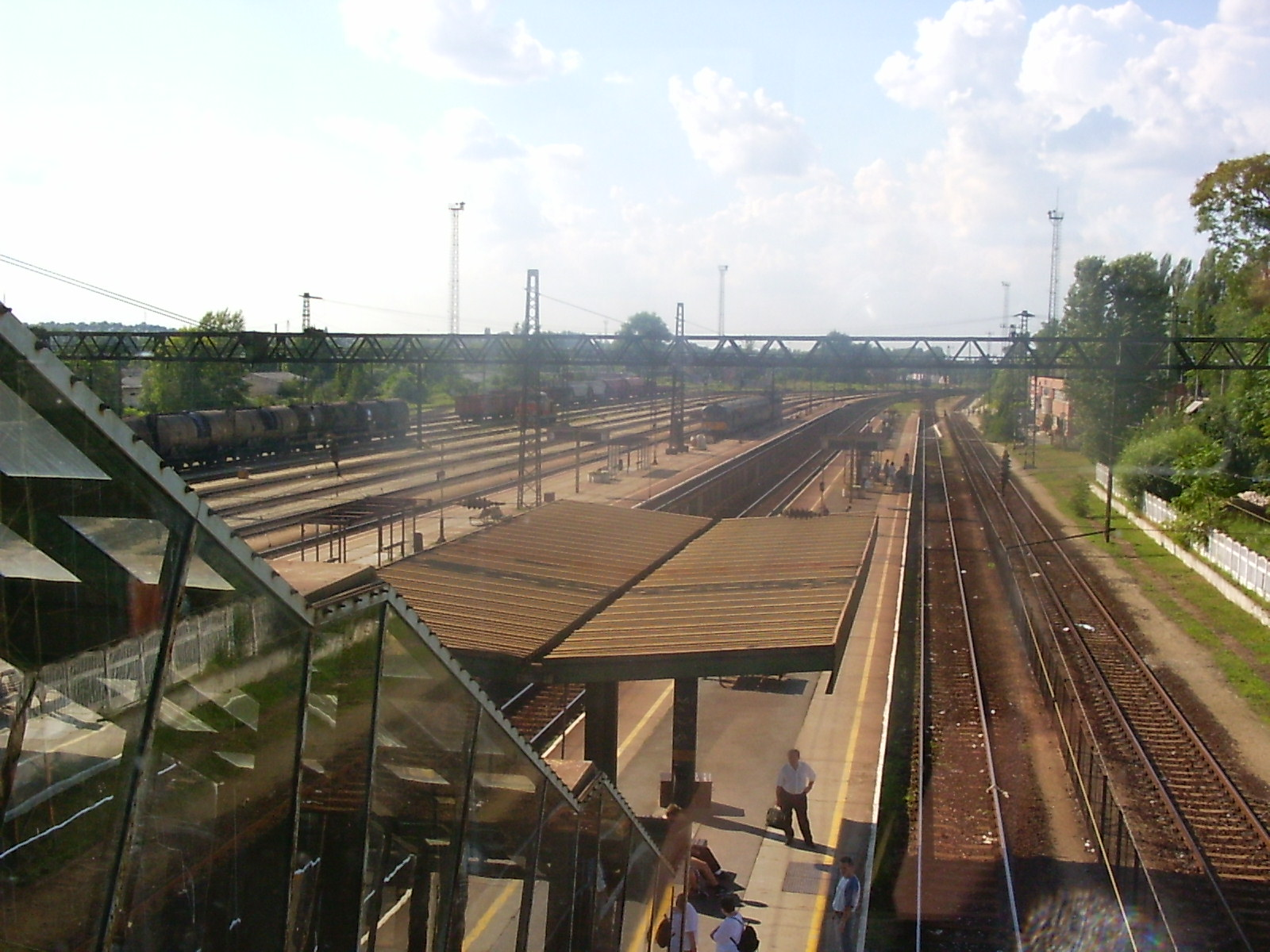 Platforms of Tatabánya rilway station